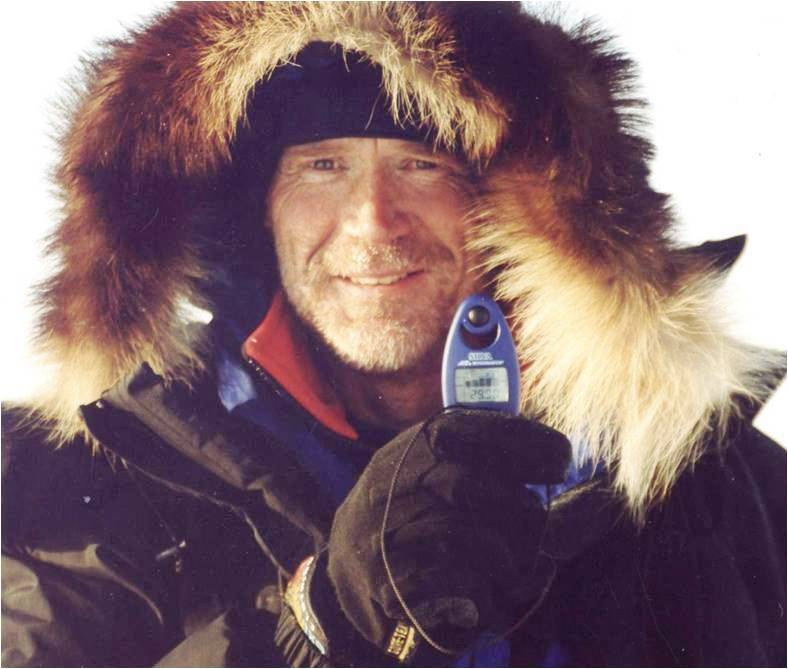 Heinz at North pole